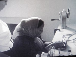 Alta Kahn editing her film "Second Weaver" as her daughter and teacher Susie Benally looks on.